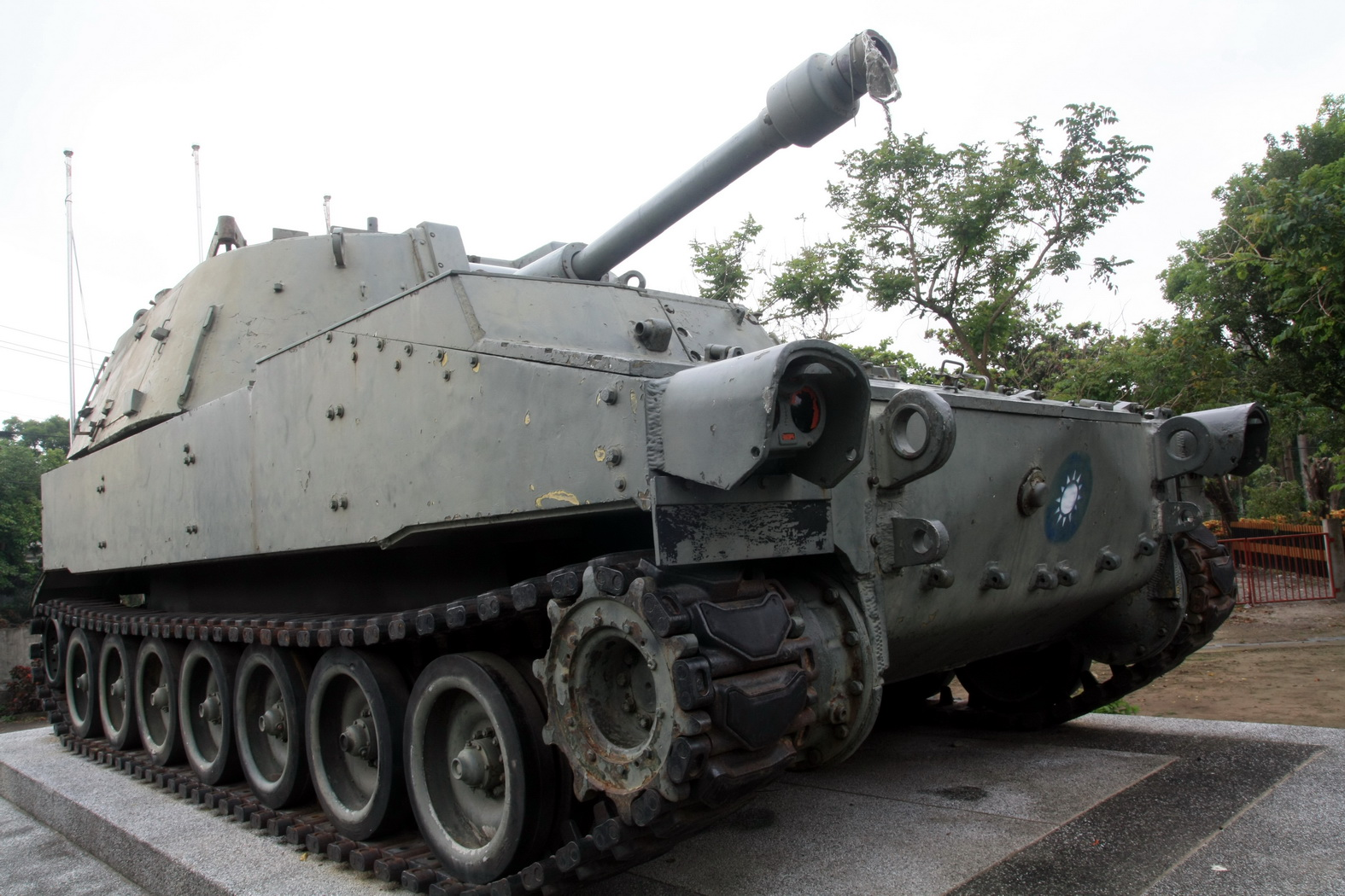 M108 howitzer, previously of the Taiwanese Army but now on display in a park.